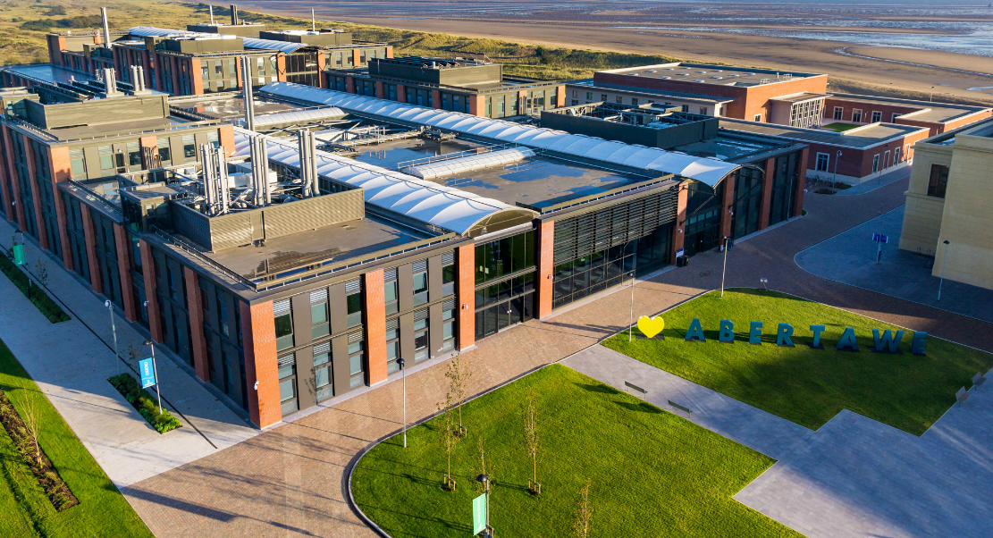 Swansea University College of Engineering